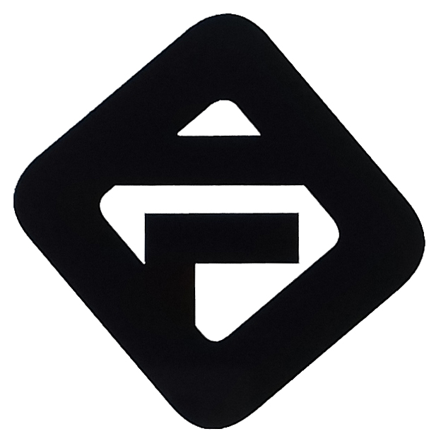 OF_logo